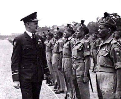 Tokyo, Japan. 24 May 1947. On (British) Empire Day, Air Vice Marshal Bladin, Acting Commander-in-Chief, (BCOF) stops to speak to L/NK Namdeo Jadav of Maharatta Light Infantry, who was wearing the Victoria Cross (VC) which he won in Italy.